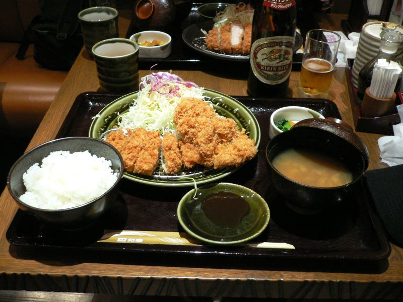 Tonkatsu